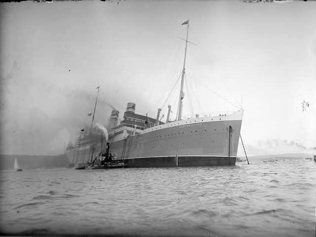 The Norwegian passenger ship Bergensfjord on fire in 1924.